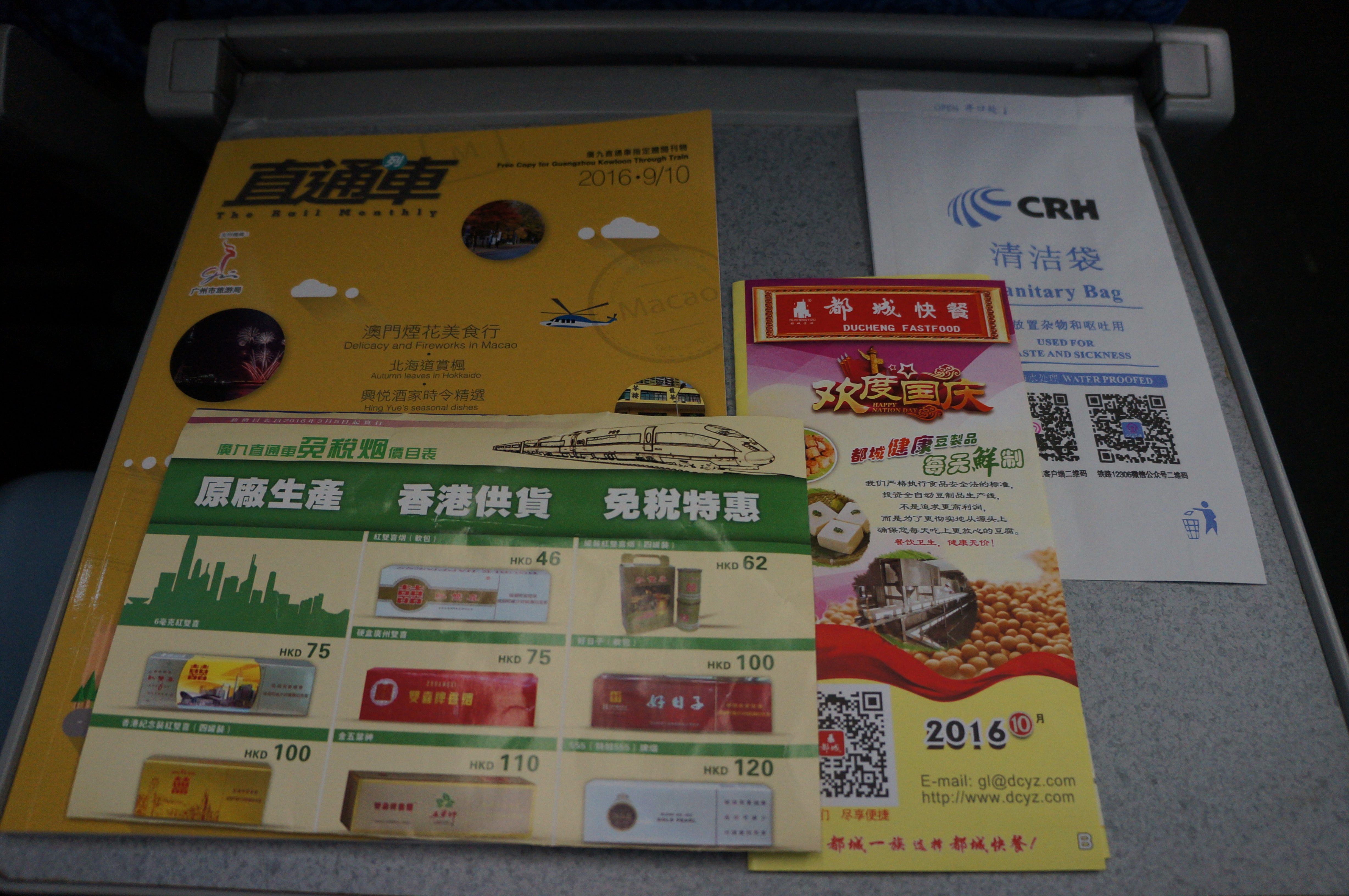 201609 Magazine, leaflets, sickness bag on Guangdong Through Train served by Guangzhou–Kowloon Passenger Service Department